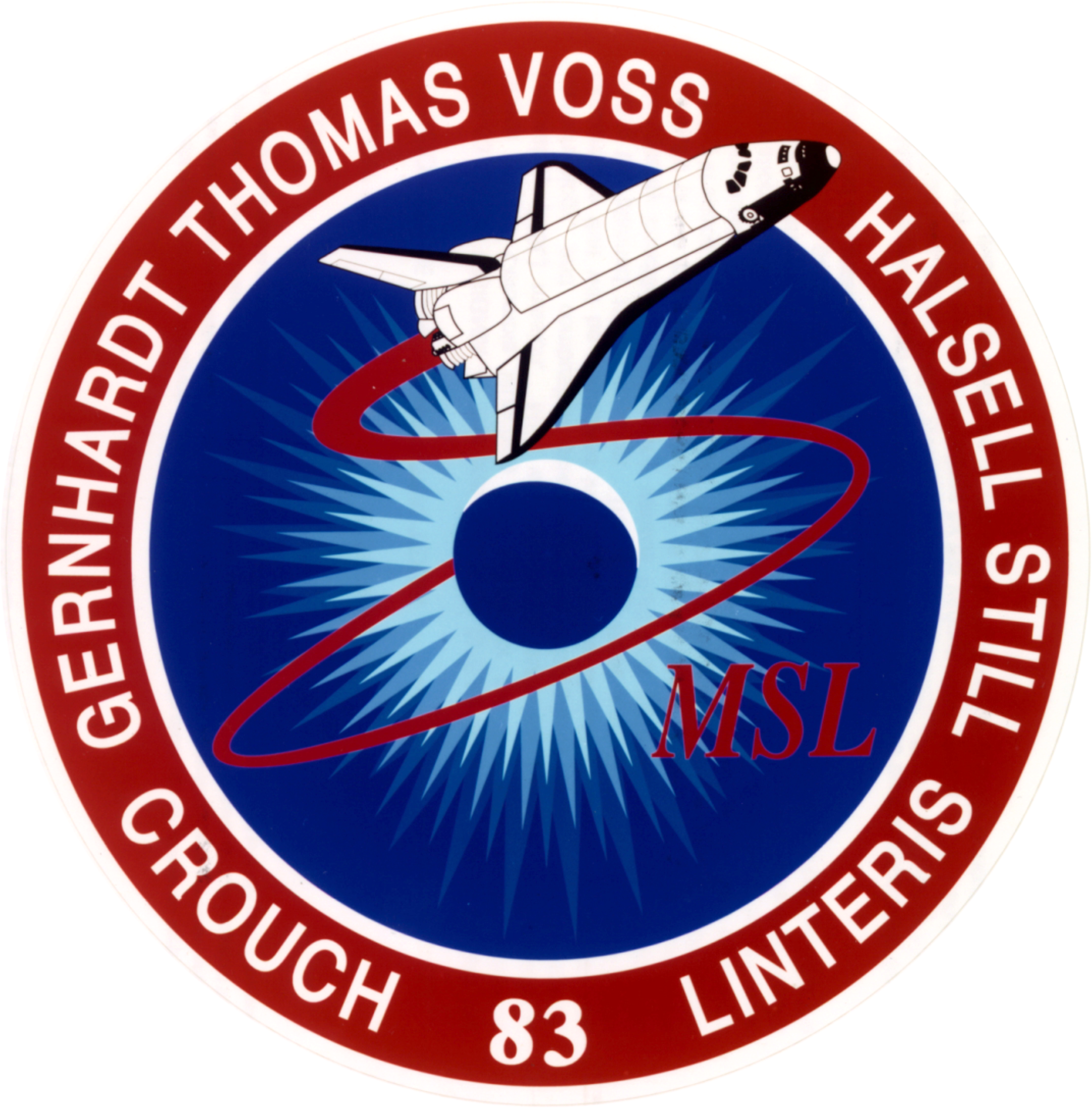 The crew patch for NASA's STS-83 mission depicts the Space Shuttle Columbia launching into space for the first Microgravity Sciences Laboratory 1 (MSL-1) mission. MSL-1 investigated materials science, fluid dynamics, biotechnology, and combustion science in the microgravity environment of space, experiments that were conducted in the Spacelab Module in the Space Shuttle Columbia's cargo bay. The center circle symbolizes a free liquid under microgravity conditions representing various fluid and materials science experiments. Symbolic of the combustion experiments is the surrounding starburst of a blue flame burning in space. The 3-lobed shape of the outermost starburst ring traces the dot pattern of a transmission Laue photograph typical of biotechnology experiments. The numerical designation for the mission is shown at bottom center. As a forerunner to missions involving International Space Station (ISS), STS-83 represented the hope that scientific results and knowledge gained during the flight will be applied to solving problems on Earth for the benefit and advancement of humankind.